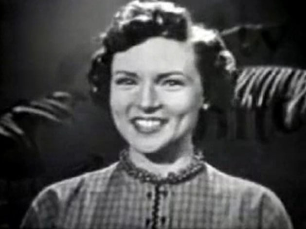 Cropped screenshot of Betty White from the television series Category:Betty White Show.